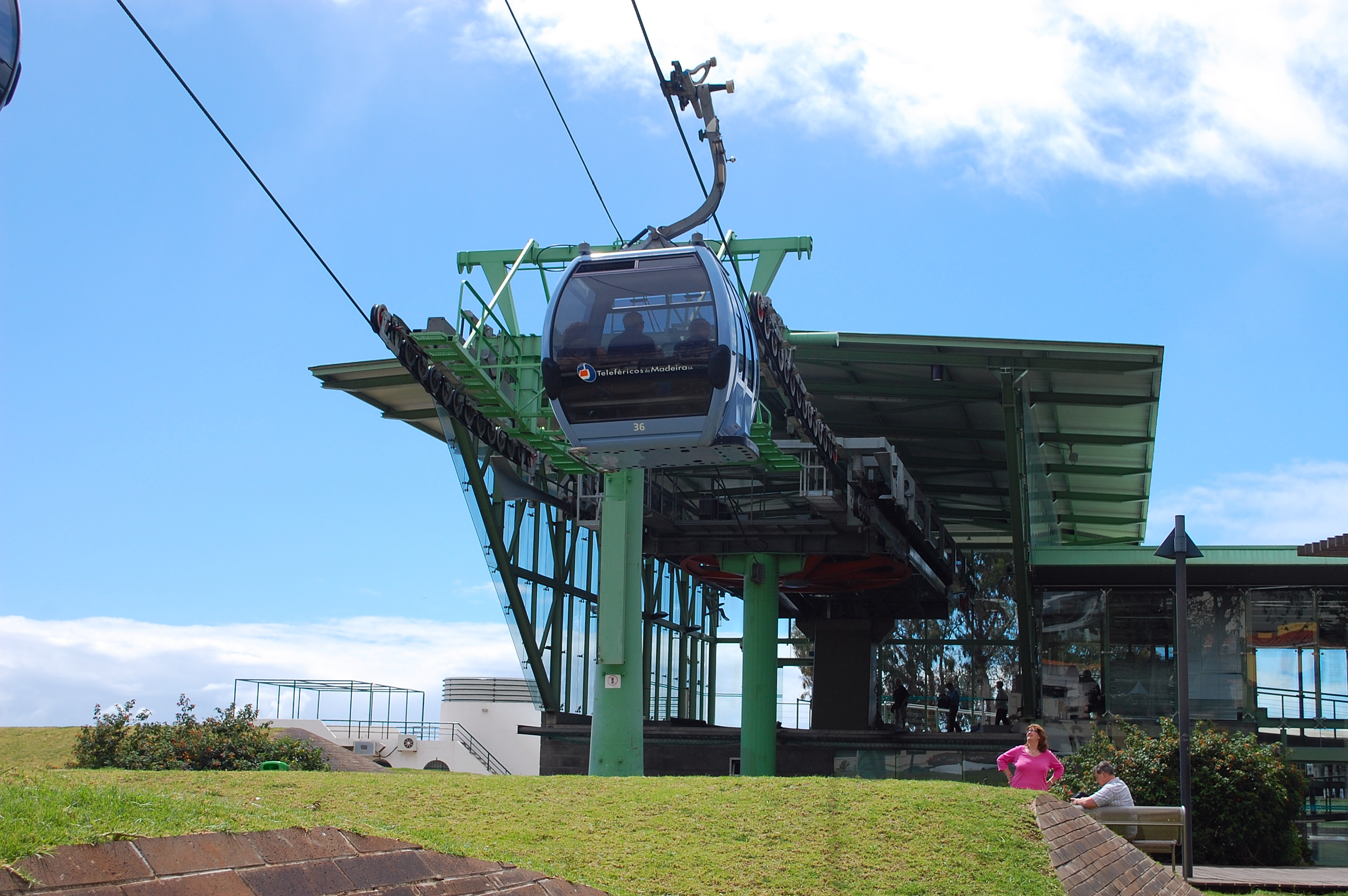 The lower terminal of the Cable Car, near the old town of Funchal.